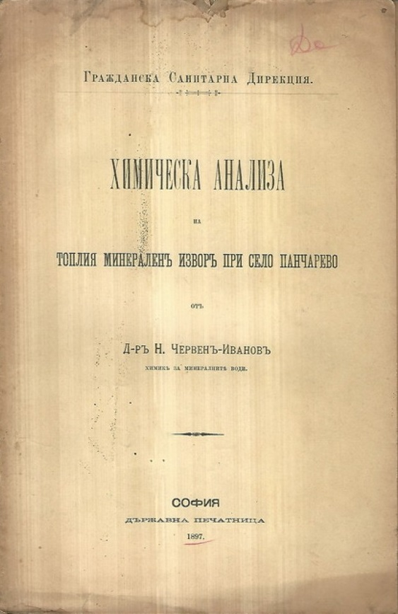 Chemical Analysis by Nikola Chervenivanov